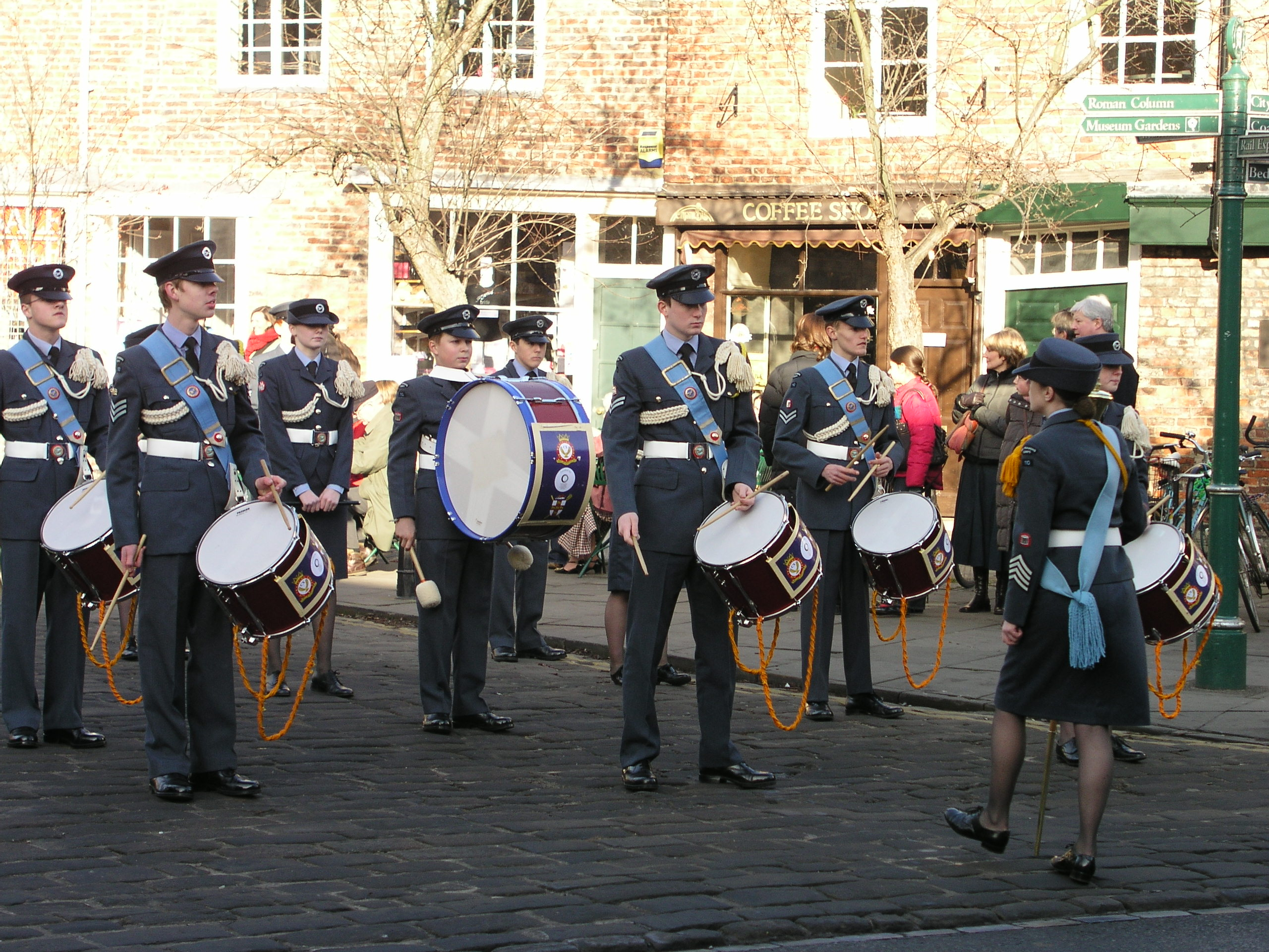 An Air Training Corps Marching Band from City of York Squadron. The Drum Major is at the front, followed by Snare Drummers and also a Bass Drum player at the center rear rank.